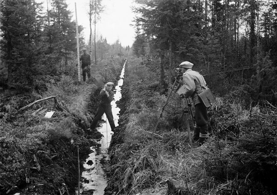 The clearance camp in Karkkila tackles the Käyrä marsh, which was drain three years ago. The measuring men with their devices stand next to.